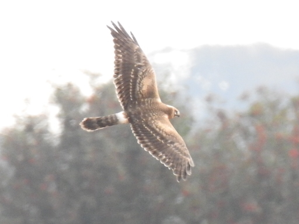 Circus macrourus, first calender year, at Lis Mosse, Halland, Sweden, 2016-09-12.